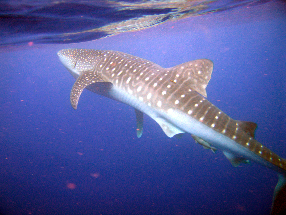 A whale shark swims near Utila, Honduras